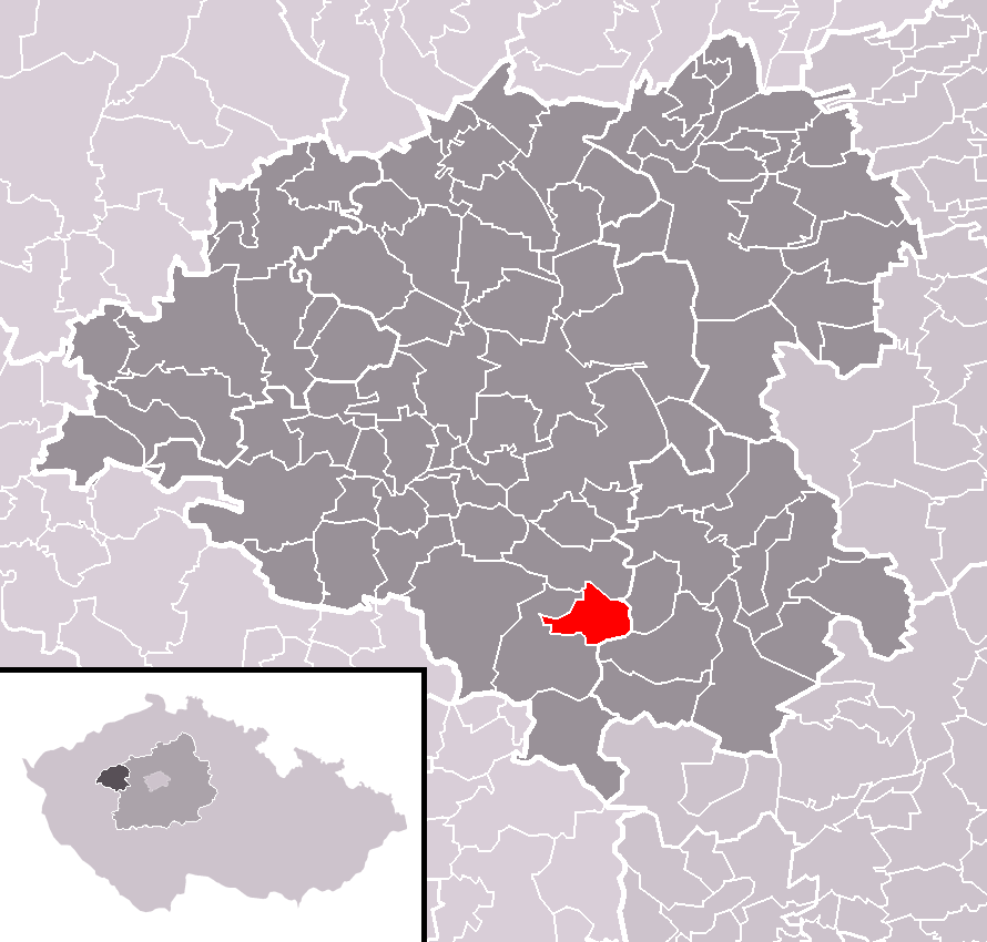 Location of Hracholusky municipality within Rakovník District and (identical) administrative area of Rakovník as a Municipality with Extended Competence.